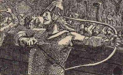 Illustration from Heimskringla of Einar Tambarskjelvar, drawn by Christian Krohg (1852-1925) In Norway economic rights expire 70 after the author's death Alternative version: Image:Olav Tryggvasons saga - Einar Tambarskjelve - C. Krohg.jpg